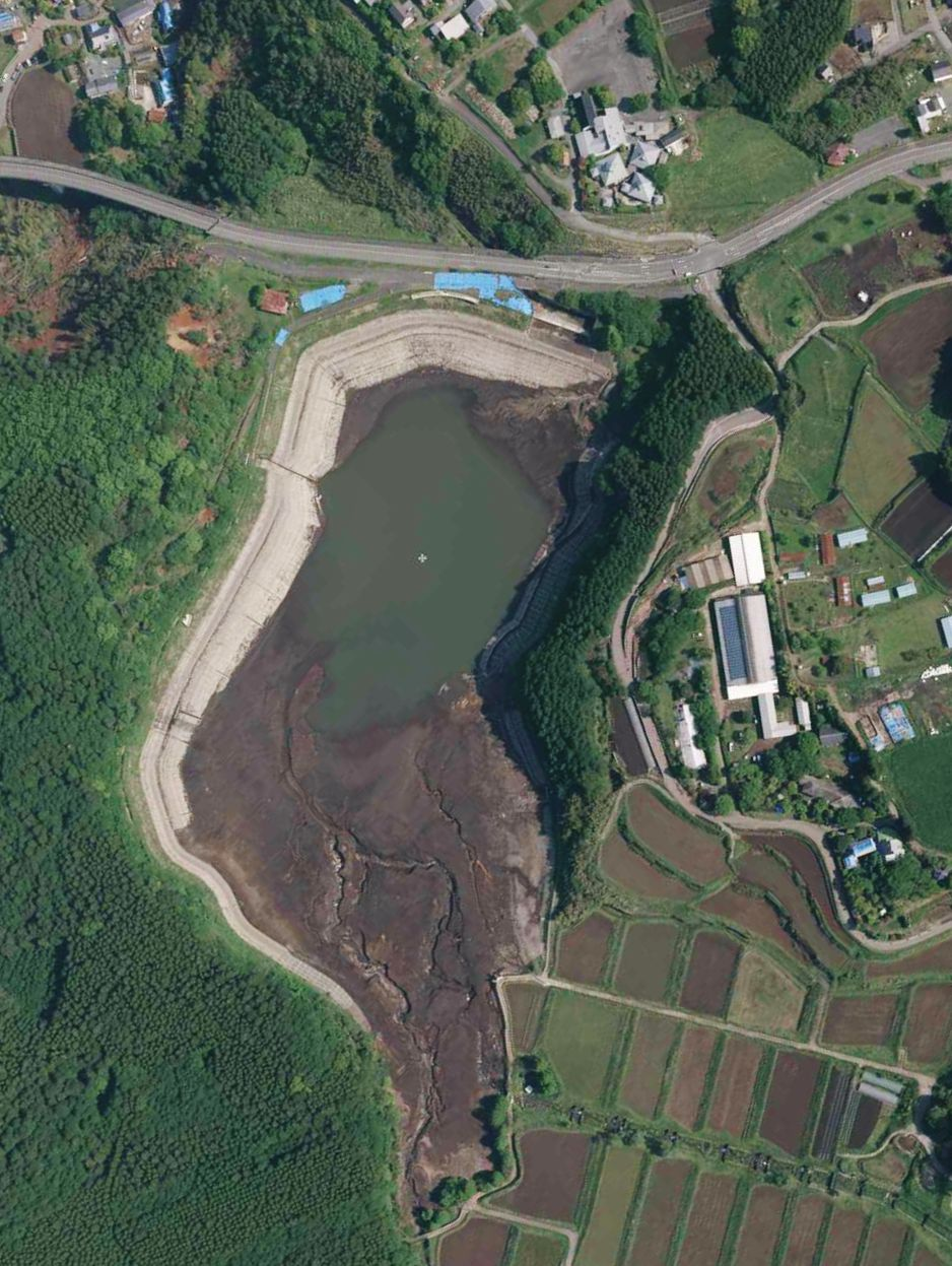 Okirihata Dam failured (2016 Kumamoto earthquakes).